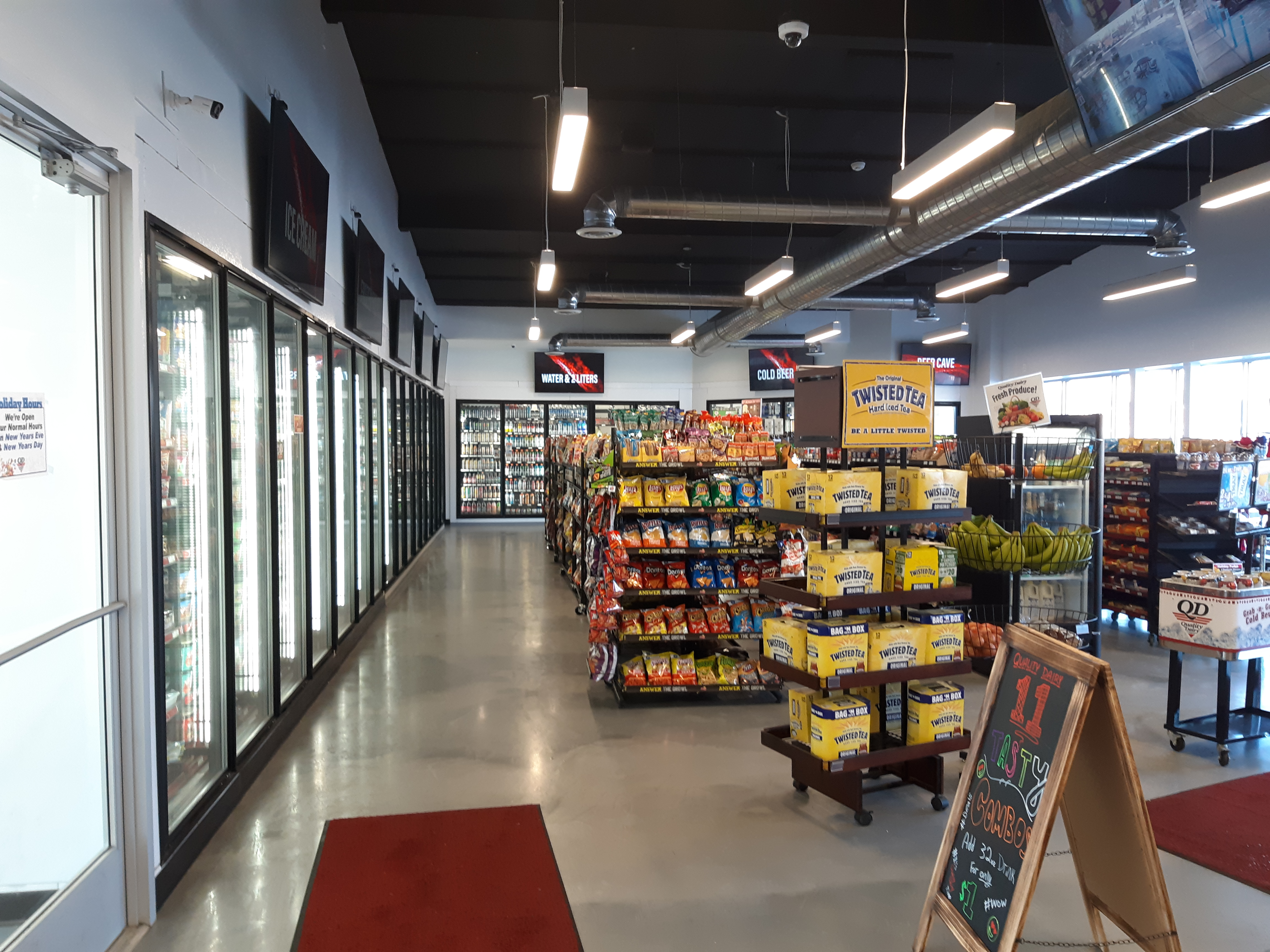 Interior of Renovated Quality Dairy-Holt